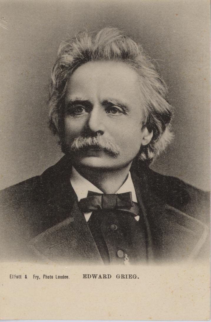 Artist: Elliott & Fry Date/place: 1880, London Subject: Edvard Grieg Medium: photographic positive, B&W Notes: none Persistent URL: N/A [#//nettbiblioteket.no/grieg-samlingen/engelsk/grieg_intro_eng.html” Original belongs to the Edvard Grieg Archives at Bergen Public Library]